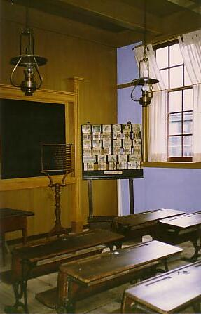 Dutch Classroom "Aap, noot, Mies..."school and memories